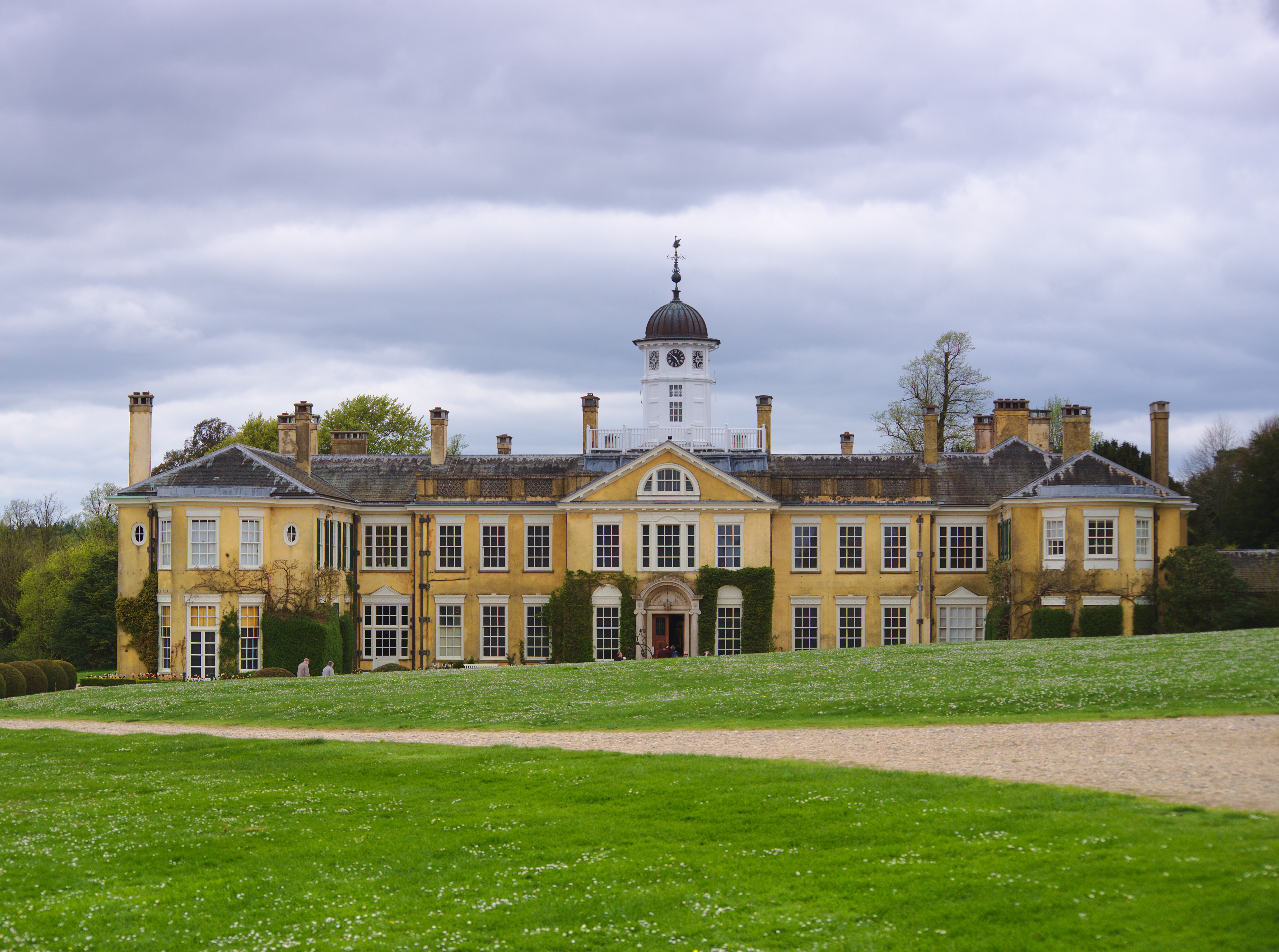 East Front of Polesden Lacey (main house)